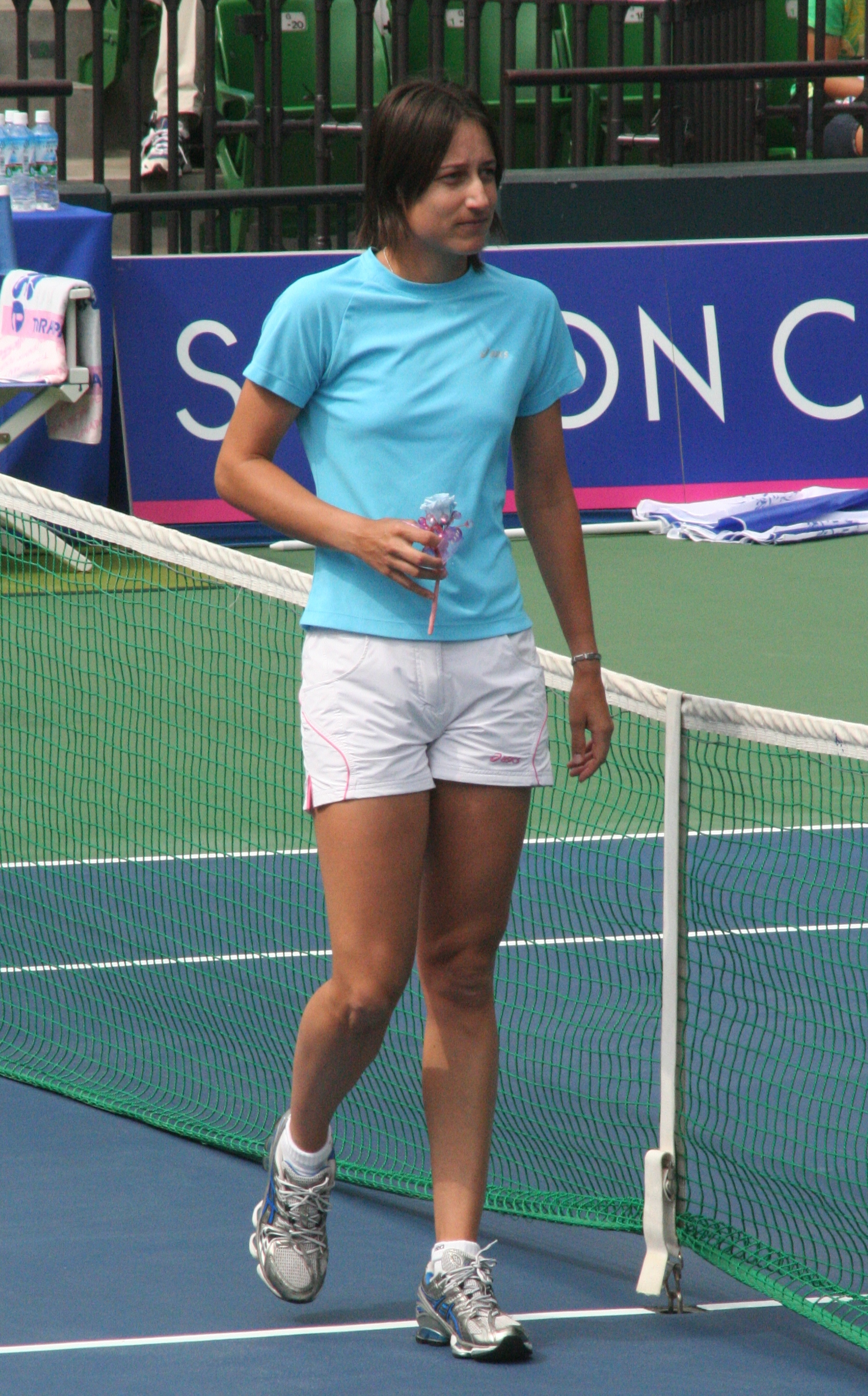 Tennis player Katarina Srebotnik (Slovenia) during the retirement ceremony for her colleague Ai Sugiyama on the opening day of the Toray Pan Pacific Open 2009 in Tokyo.